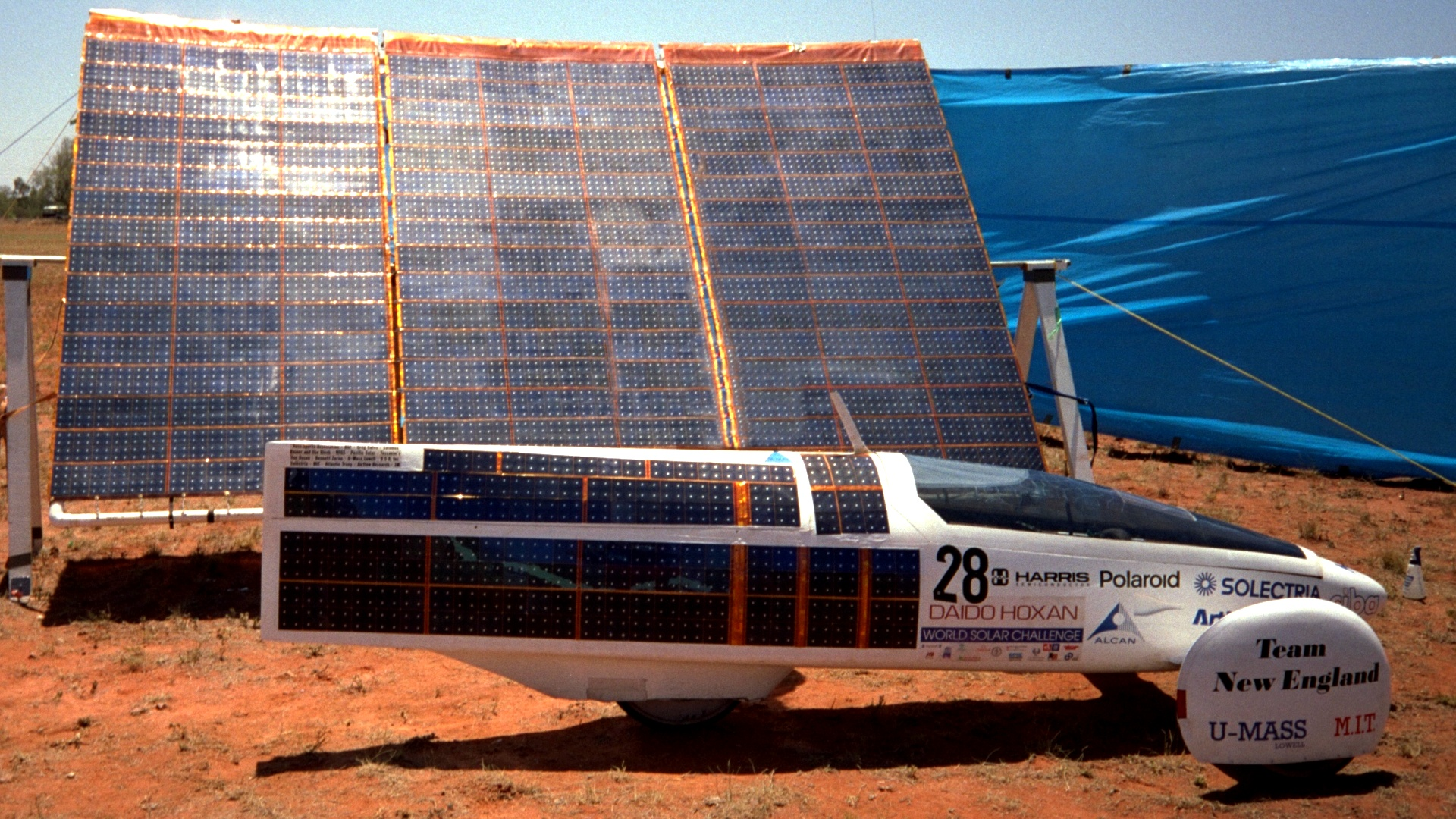 Team New England's TNE-II Solar Car in the Australian Outback, (1993 World Solar Challenge)